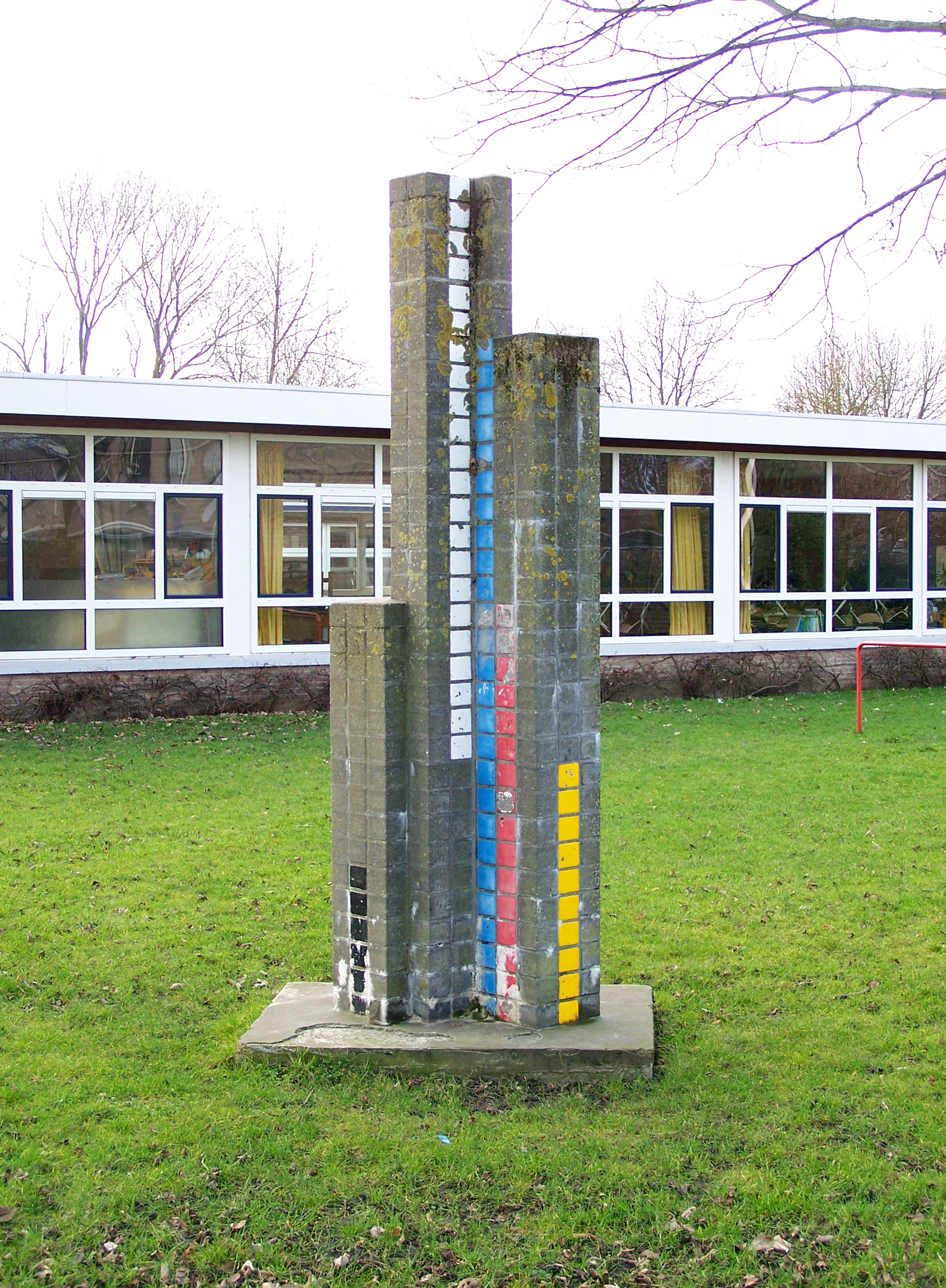 Sculpture at the corner of the street Smaragd and Granaat in front of the school "De Aventurijn" in Heerhugowaard.